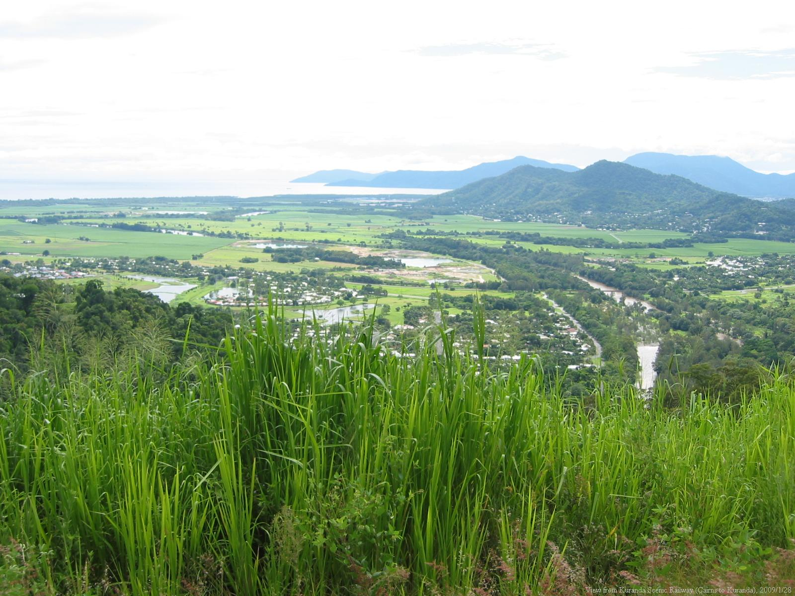 View of area north of Cairns, Queensland, Australia with mountains, coastal plain, the Coral Sea and flooding, taken from a train on the Kuranda Scenic Railway.